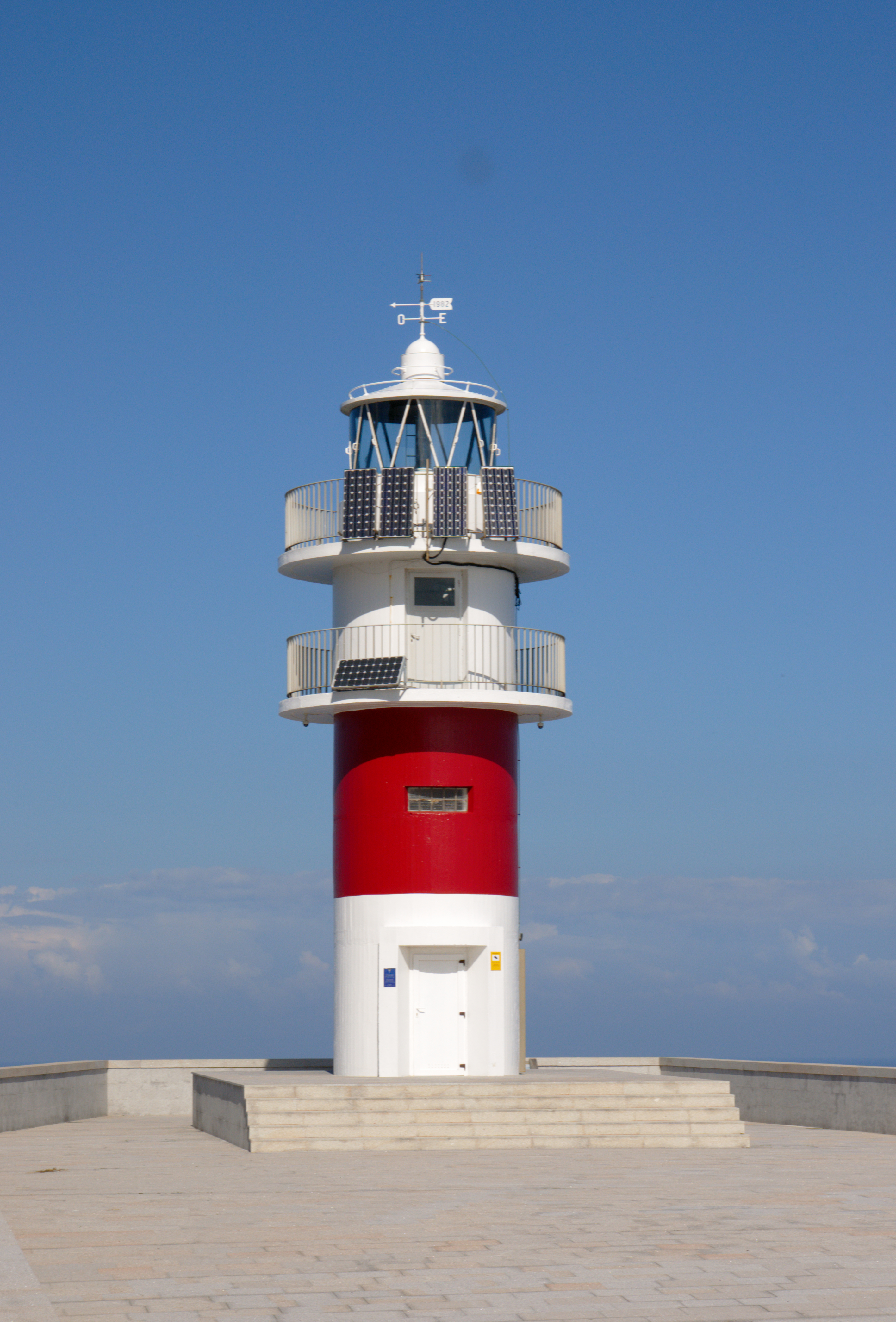 Lighthouse of Cape Ortegal